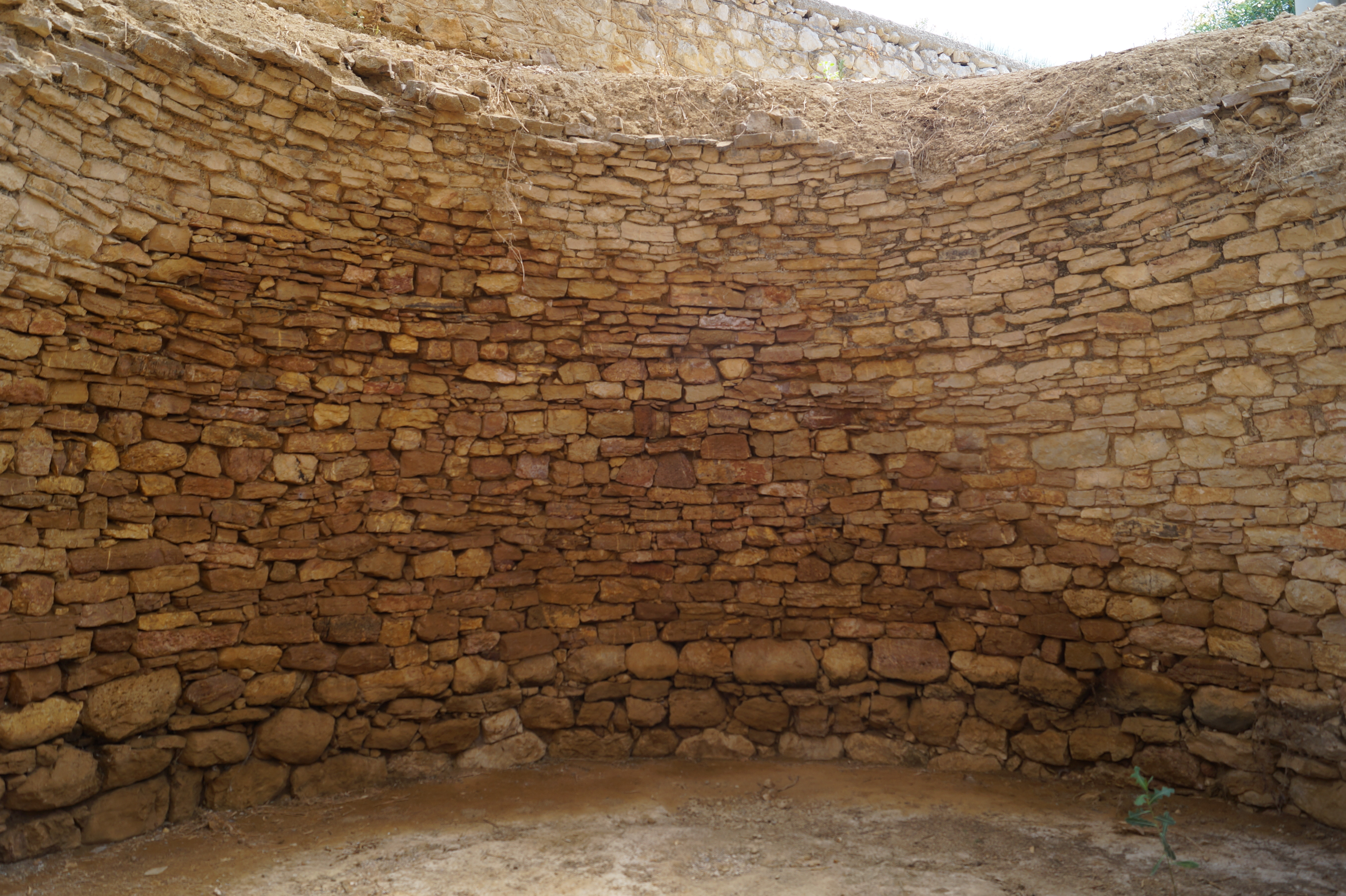 Dendra, Argolis, Greece: Tholos tomb of the mycenaean cementary.